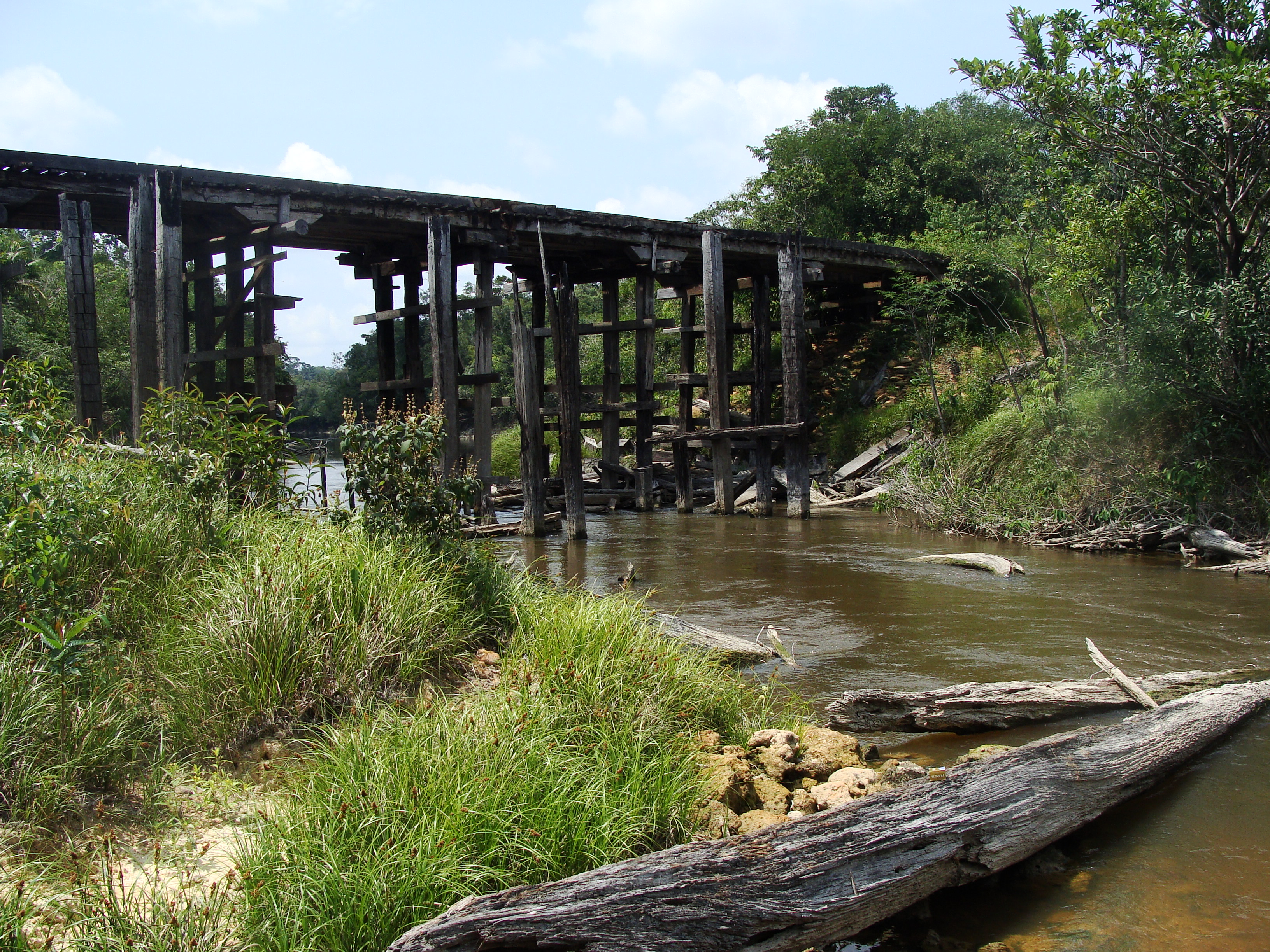 BR-319 Amazon road bridge